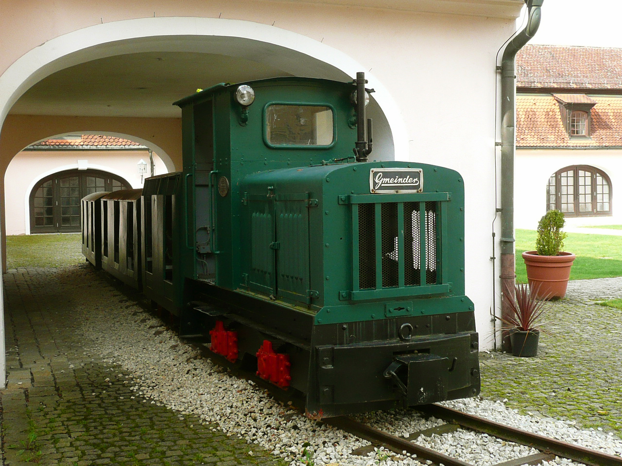 Castle Theuern near Amberg, Upper Palatinat, Bavaria - Museum exhibit